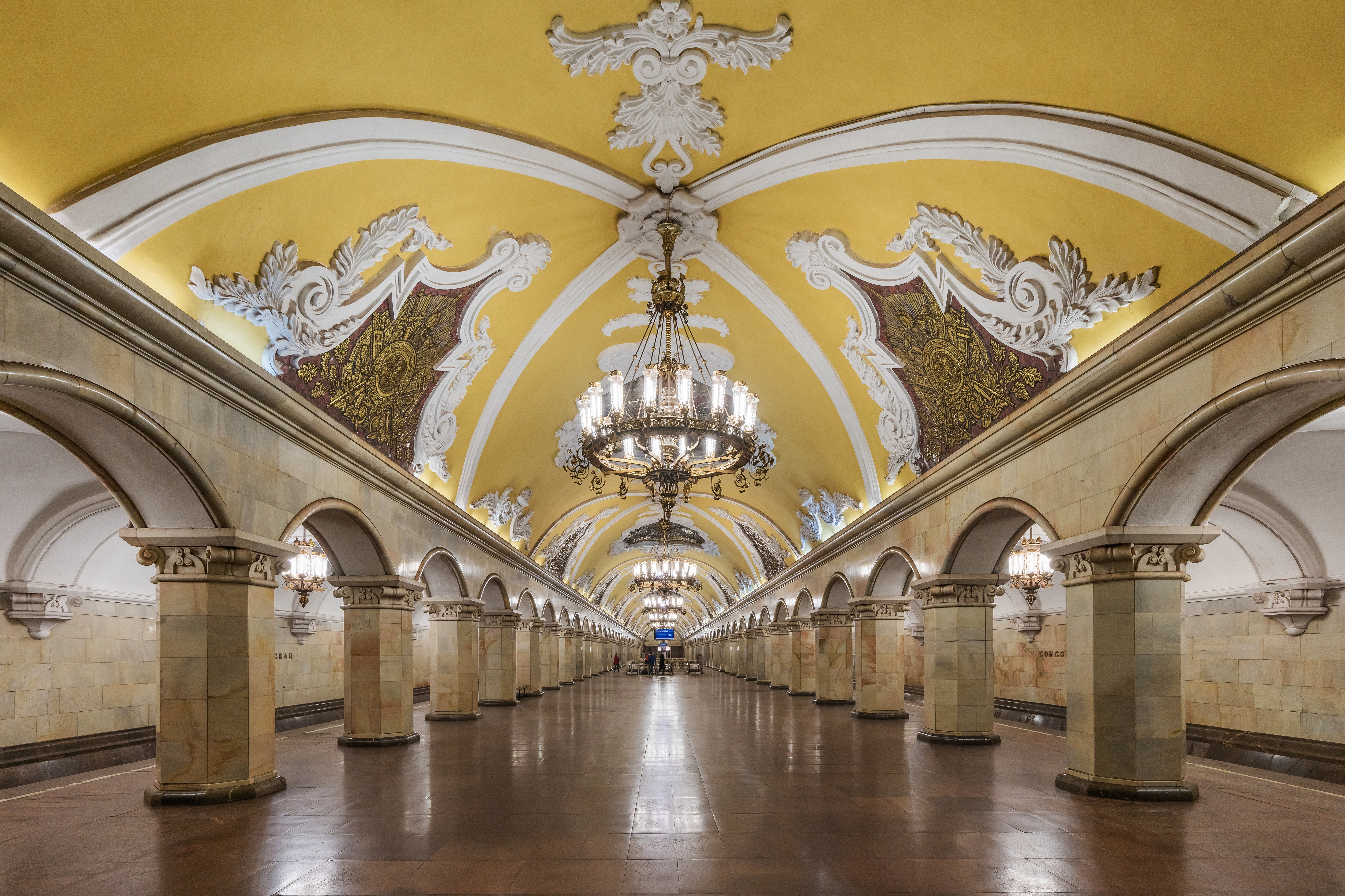 Komsomolskaya (Circle Line) metro station in Moscow